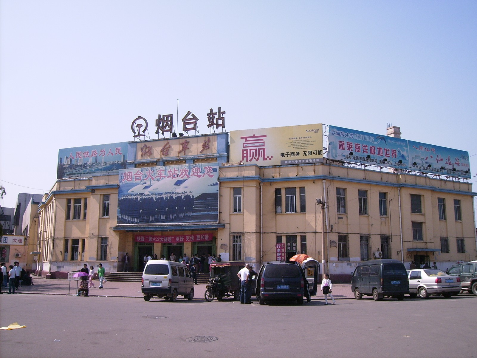 Ancient Yantai Railway Station before reconstruction